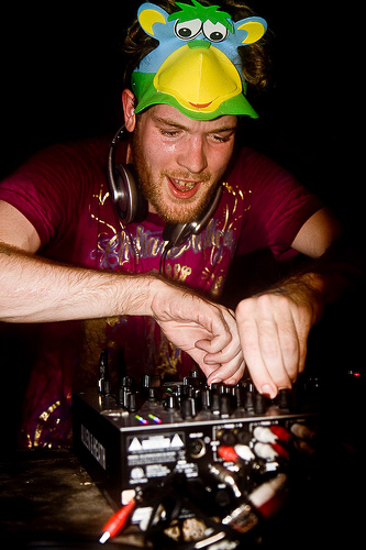 Image of Rusko With Skrillex(musician), taken by "Drown"